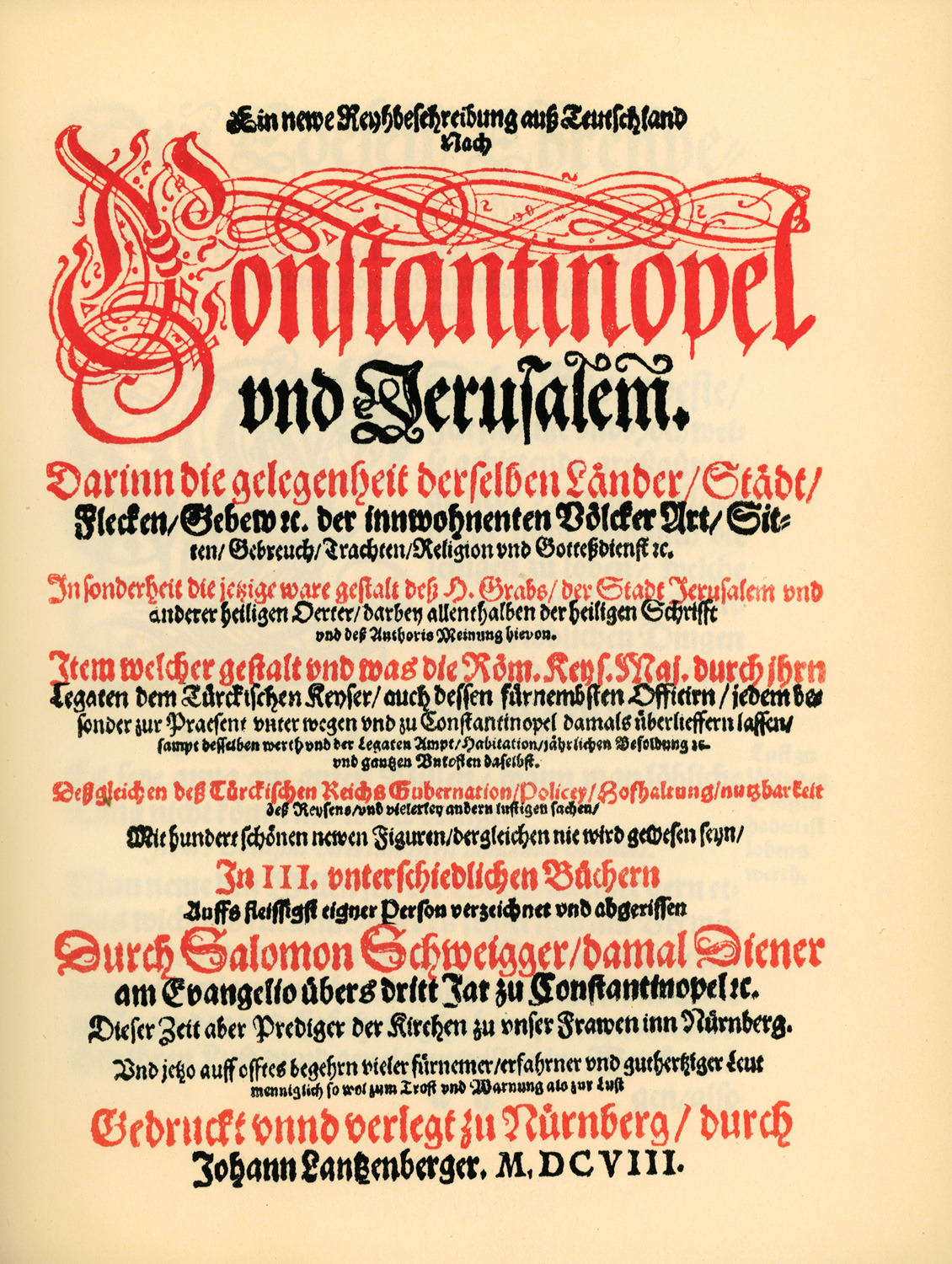 Salomon Schweigger. Ein newe Reiss Beschreibung auss Teutschland nach Constantinopel und Jerusalem, Nuremberg / Graz, Johann Lantzenberger / Akademische Druck 1608